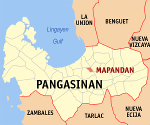 Map of Pangasinan showing the location of Mapandan